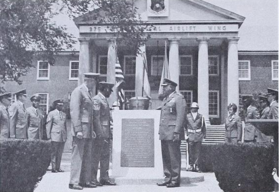 "Honoring Corporal Frank S. Scott, 20 July 1976"